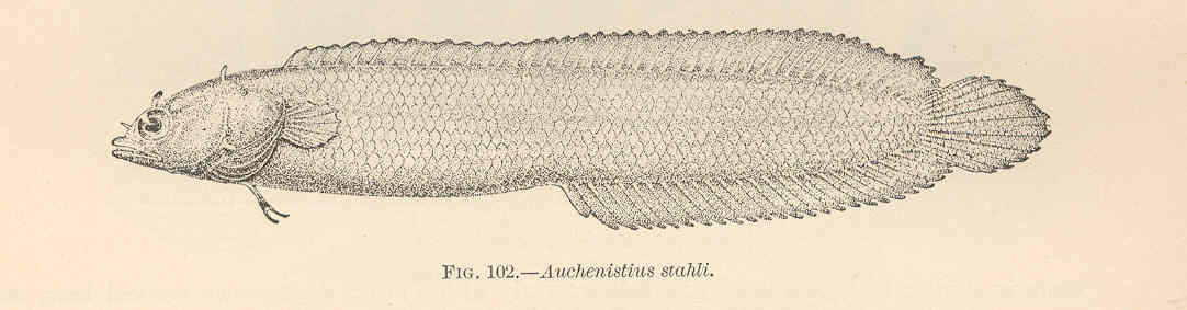 Auchenistius stahli Subject: Auchenistius Tag: Fish